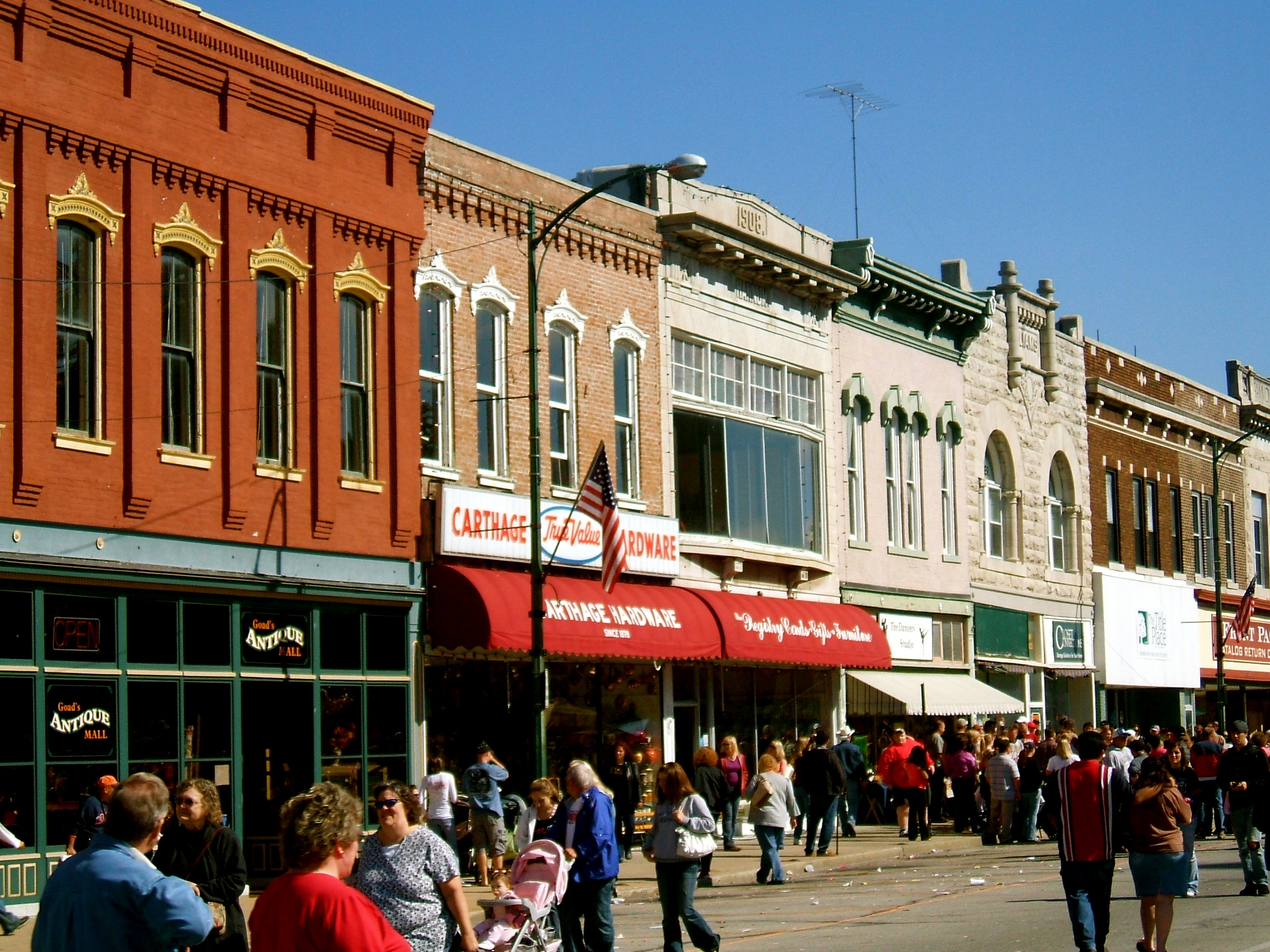 Carthage, Missouri Town Square